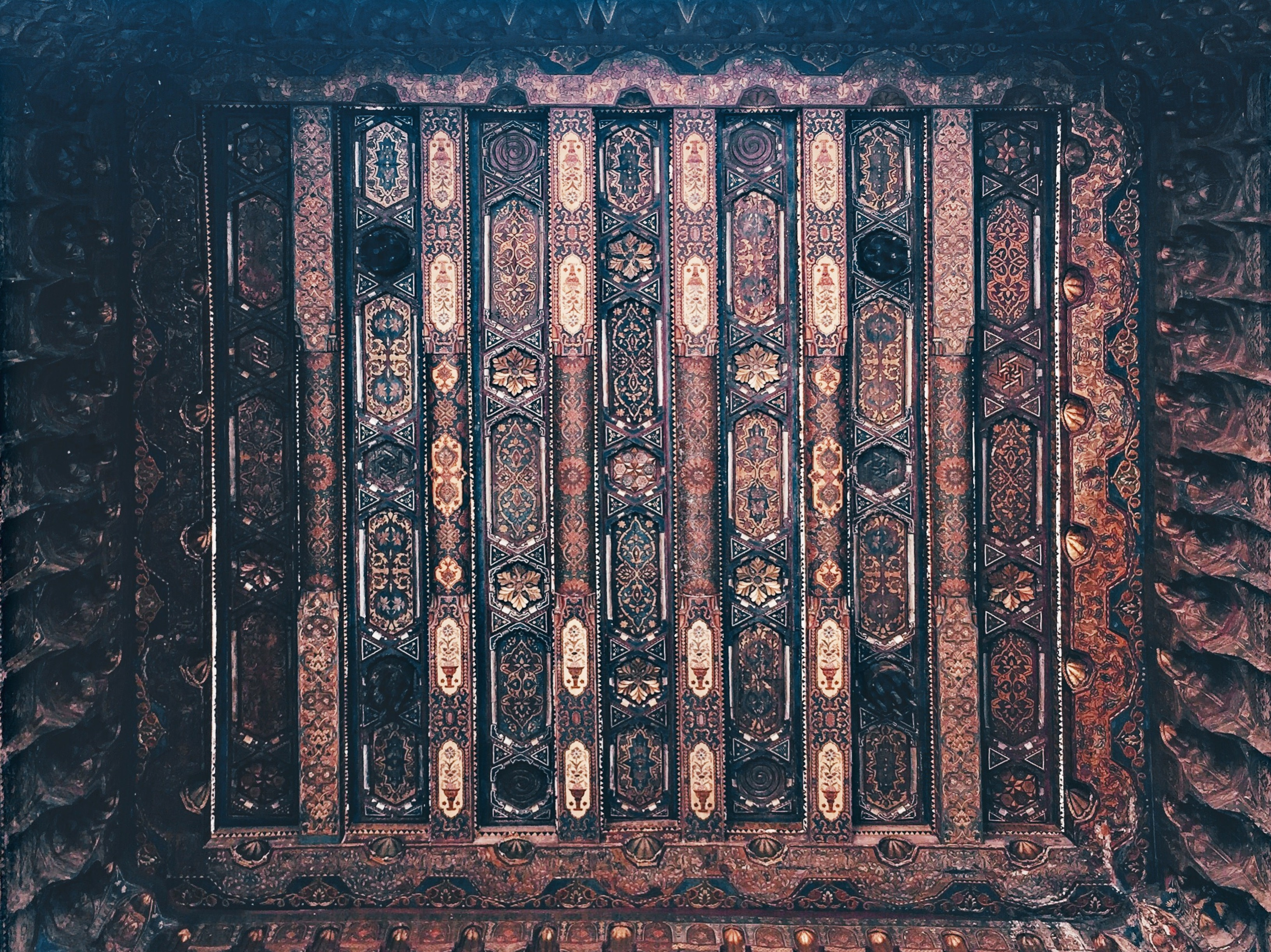 A traditional damascene ceiling in Azm Palace in the Old City of Damascus